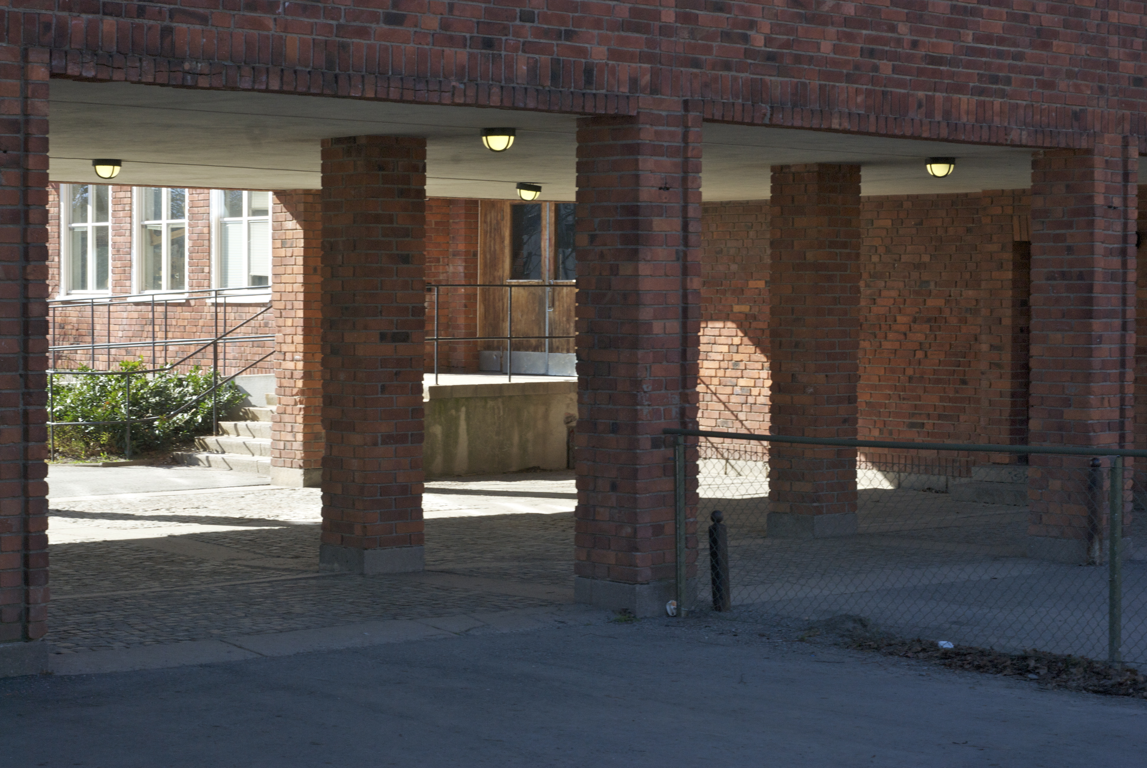 Nytorpskolan (Nytorp school). Built in the 1950s. Architect David Dahl.